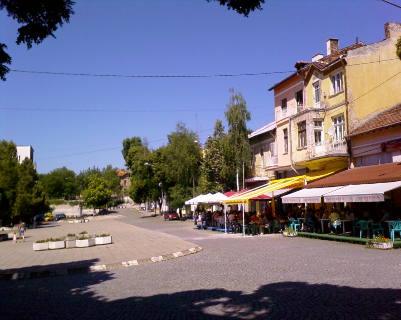 The central square of the Bulgarian town of Radomir